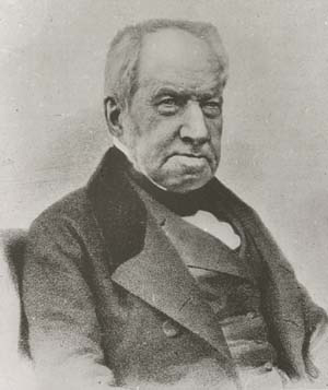 Robert Brown, botanist and discoverer of Brownian motion.